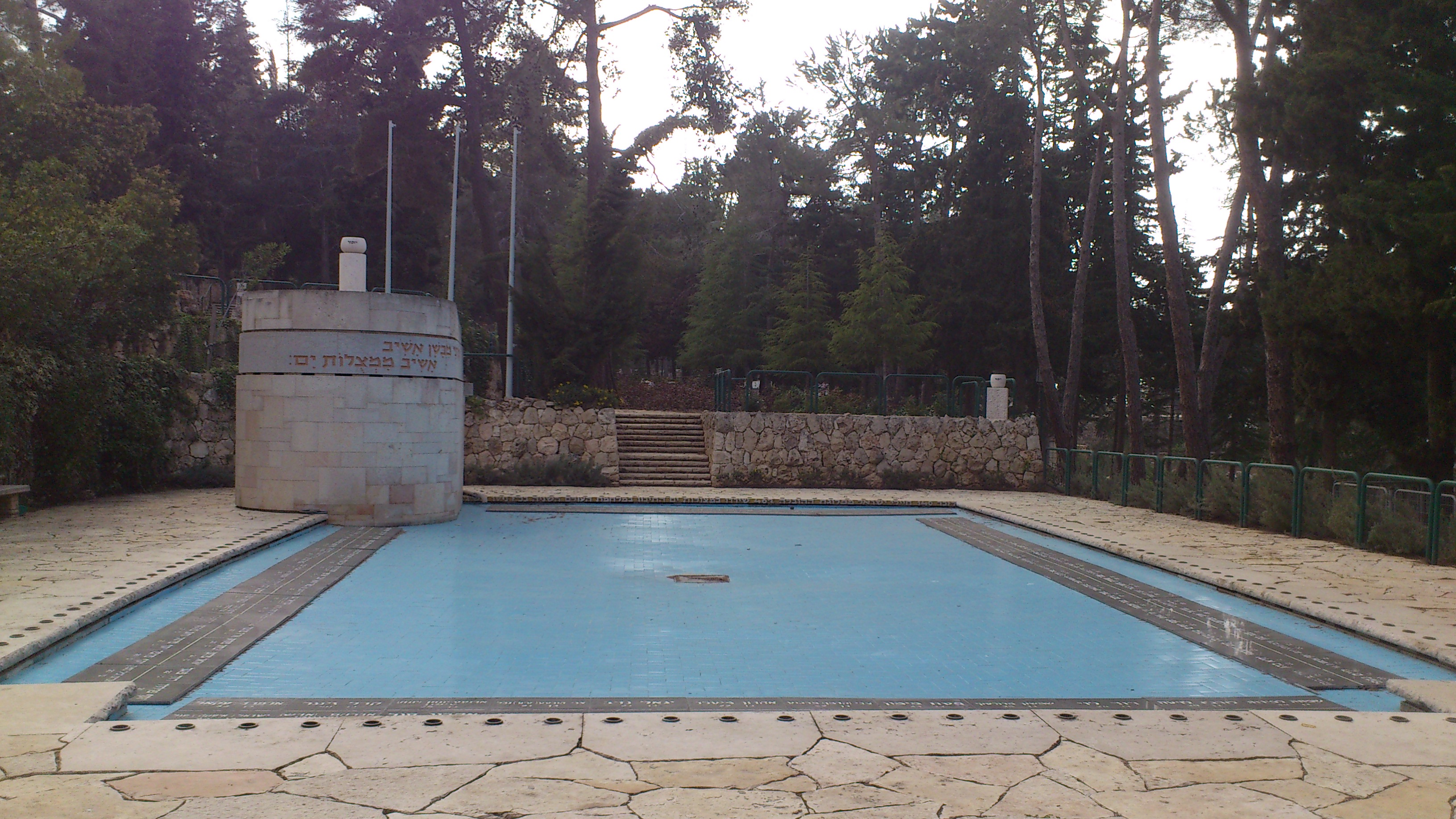 Memorial for the men of the Erinpura